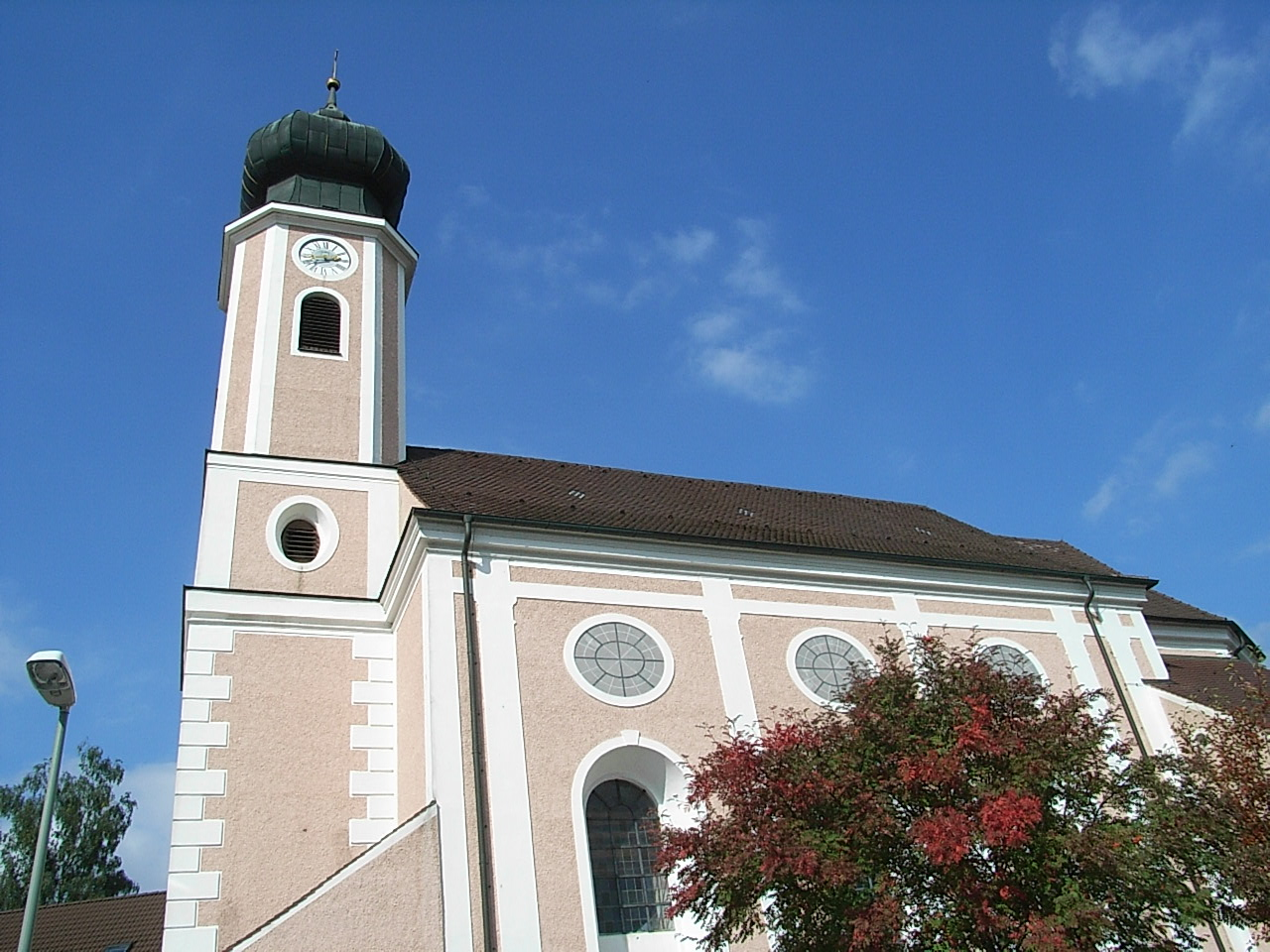 Ruhstorf an der Rott, Church of the Assumption from south.